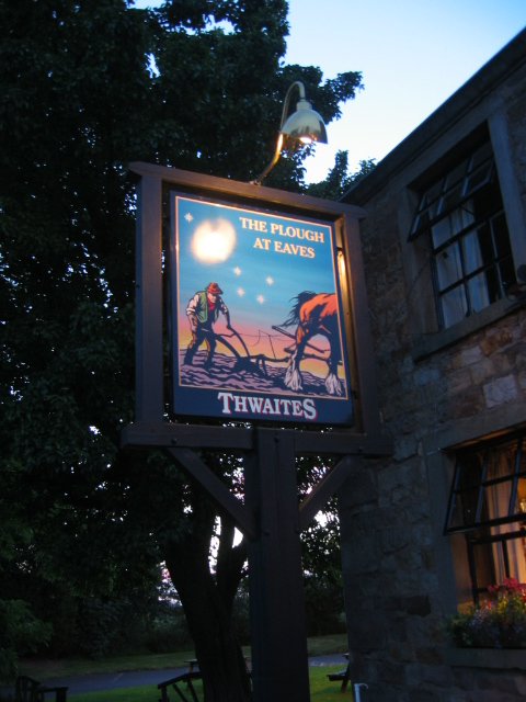 The Plough at Eaves pub, Woodplumpton, Lancashire, England